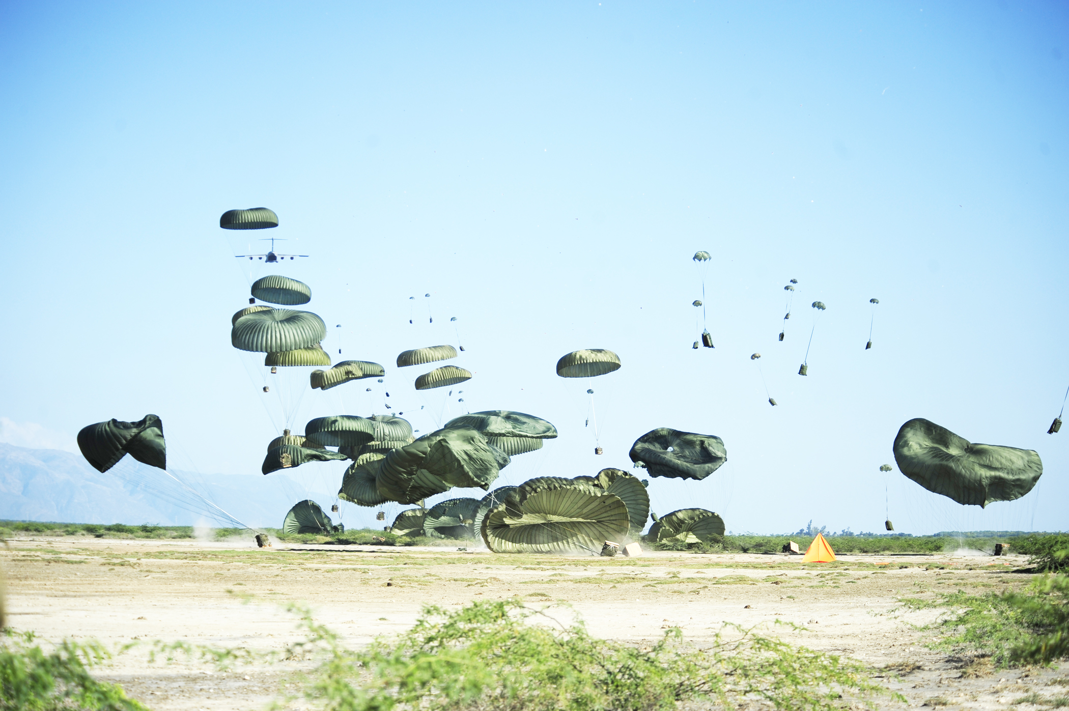 US C-17 emergency airdrop in Haiti, Jan 18.